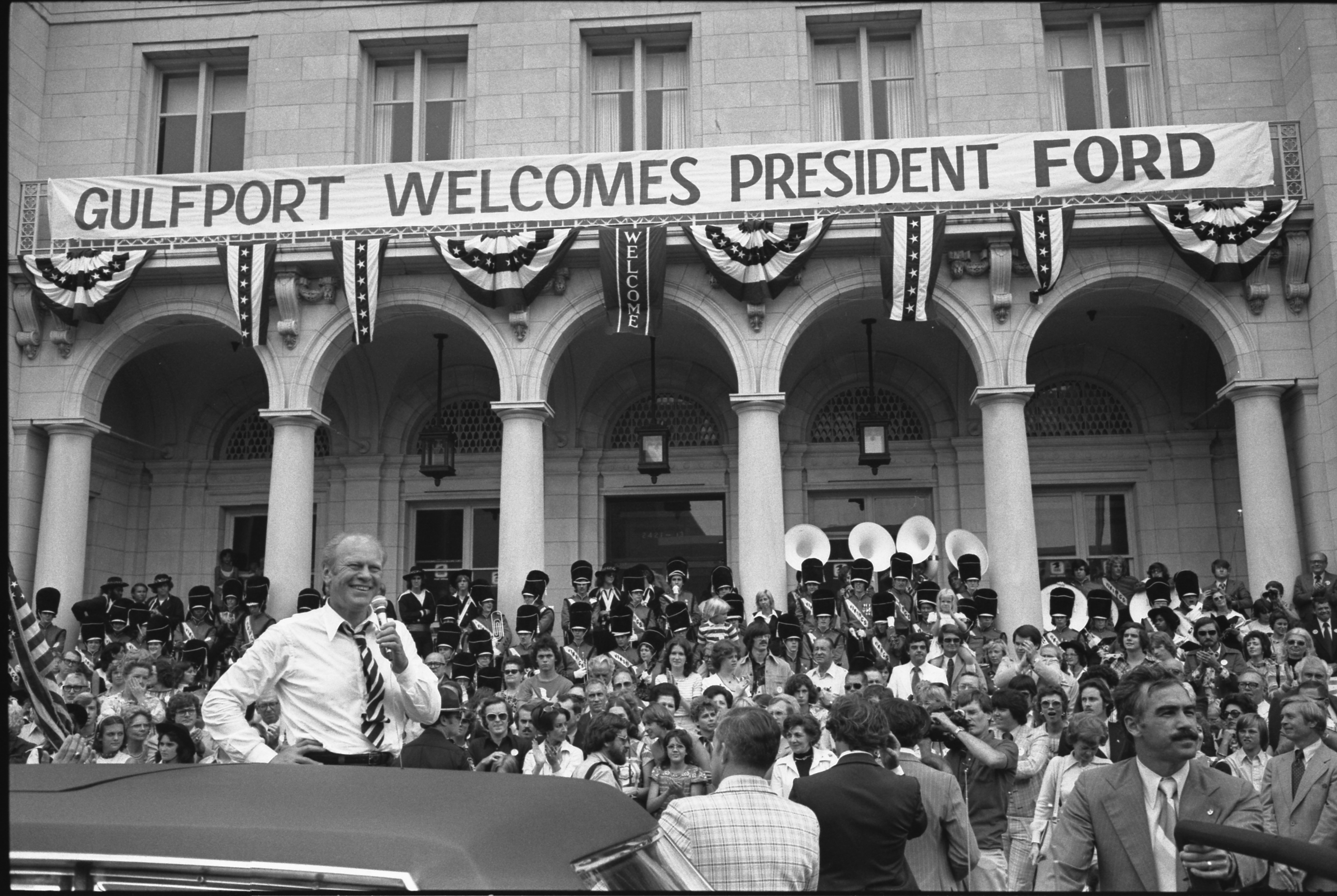 President Gerald Ford greets well-wishers during a campaign stop in Gulfport, Mississippi.